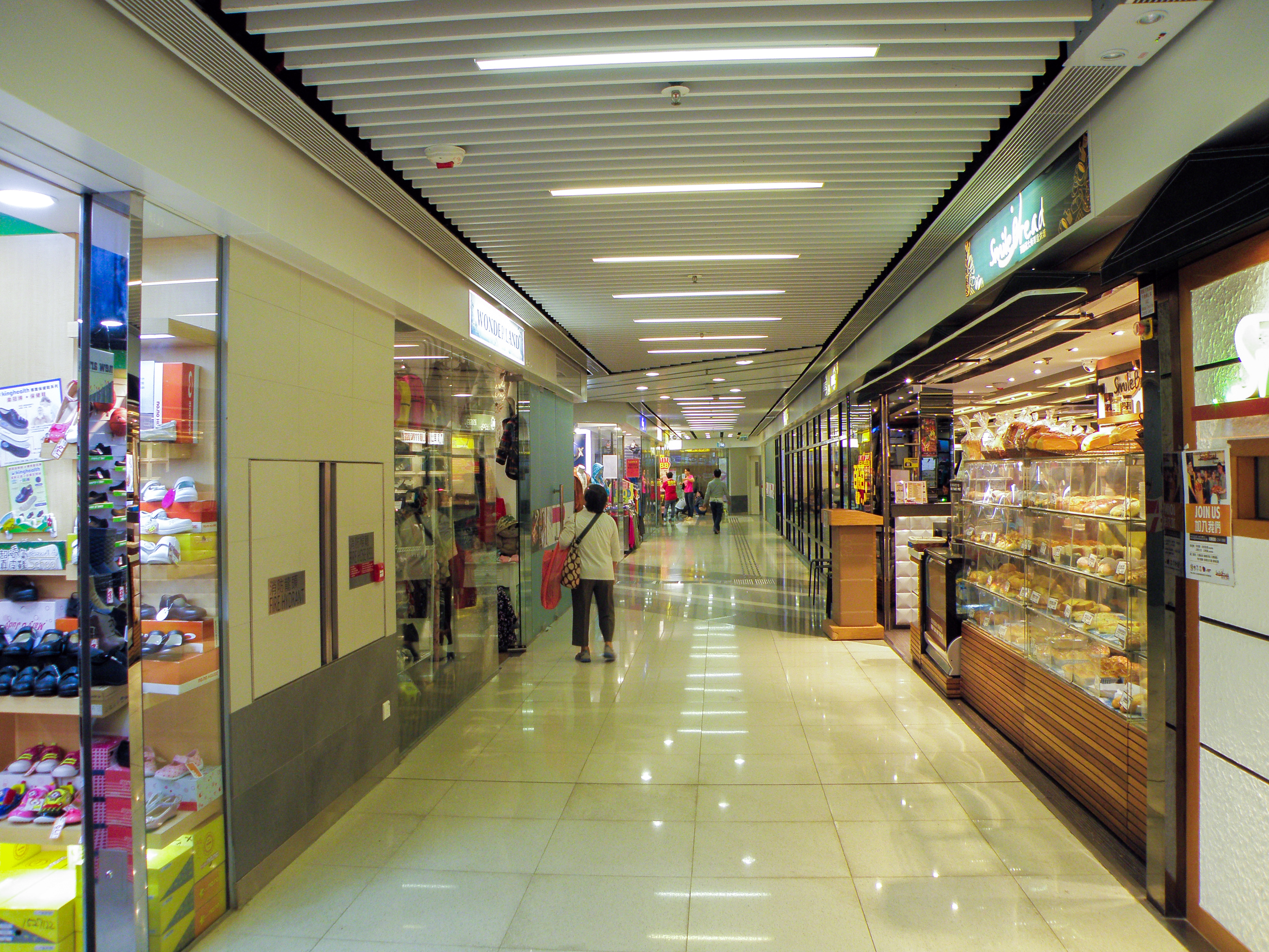 Wah Sum Shopping Centre in Fanling, Hong Kong.